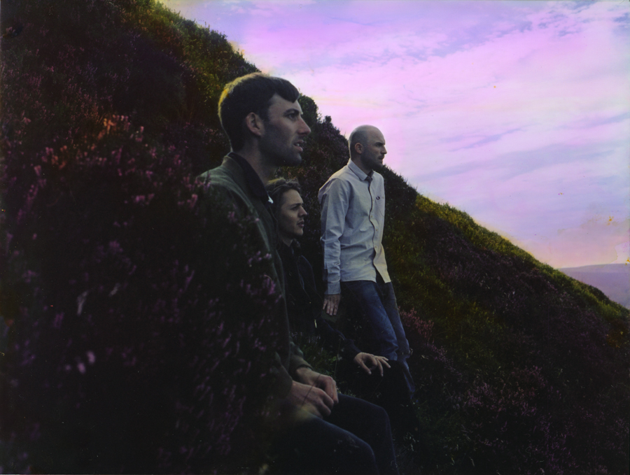 Darkstar